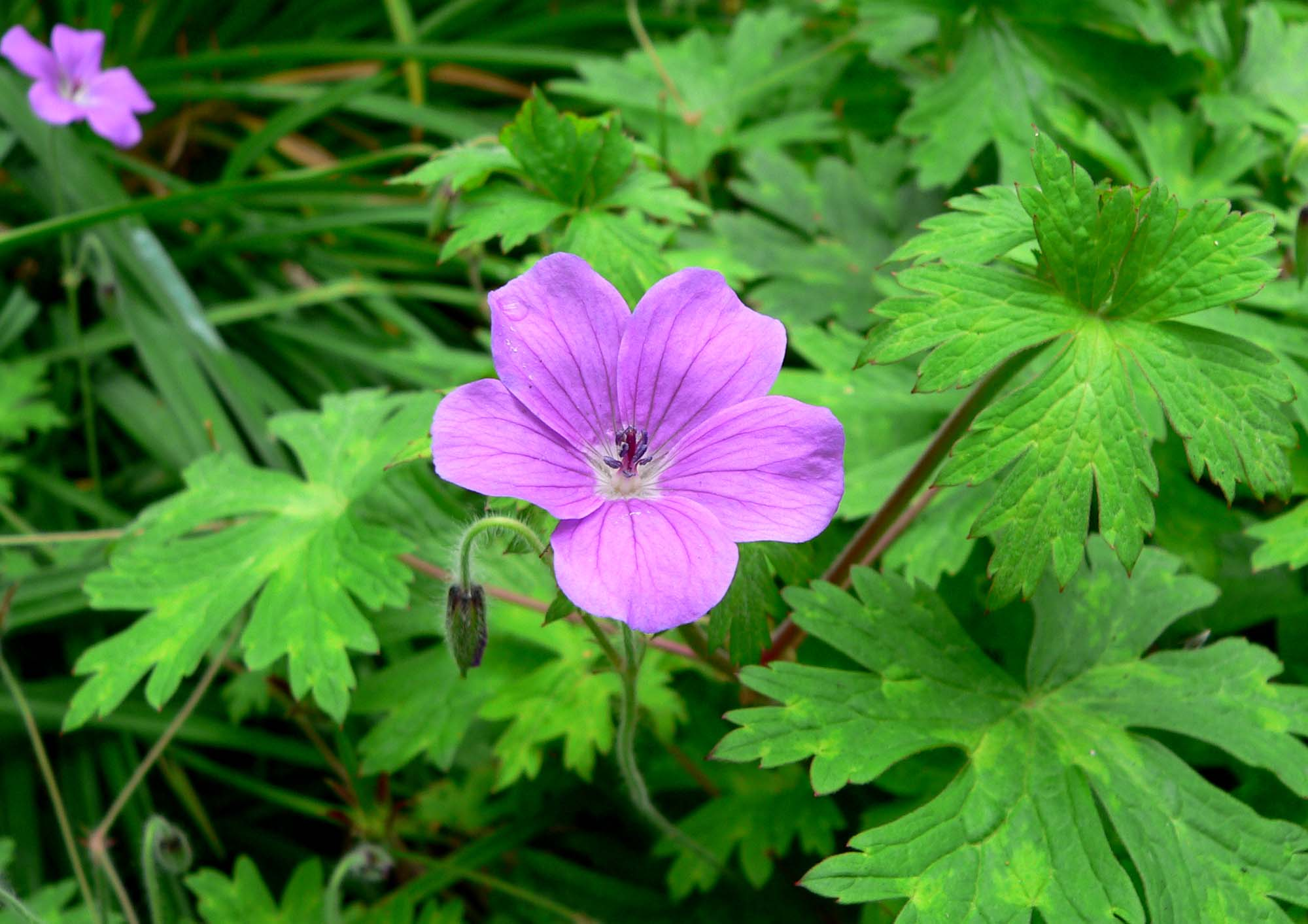 Photo of Geranium swatense at the UBC Botanical Garden in Vancouver